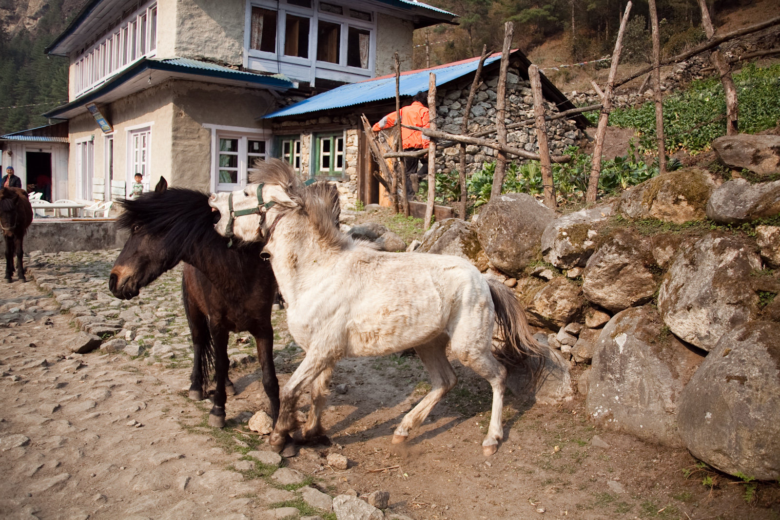 Horses in Nepal.